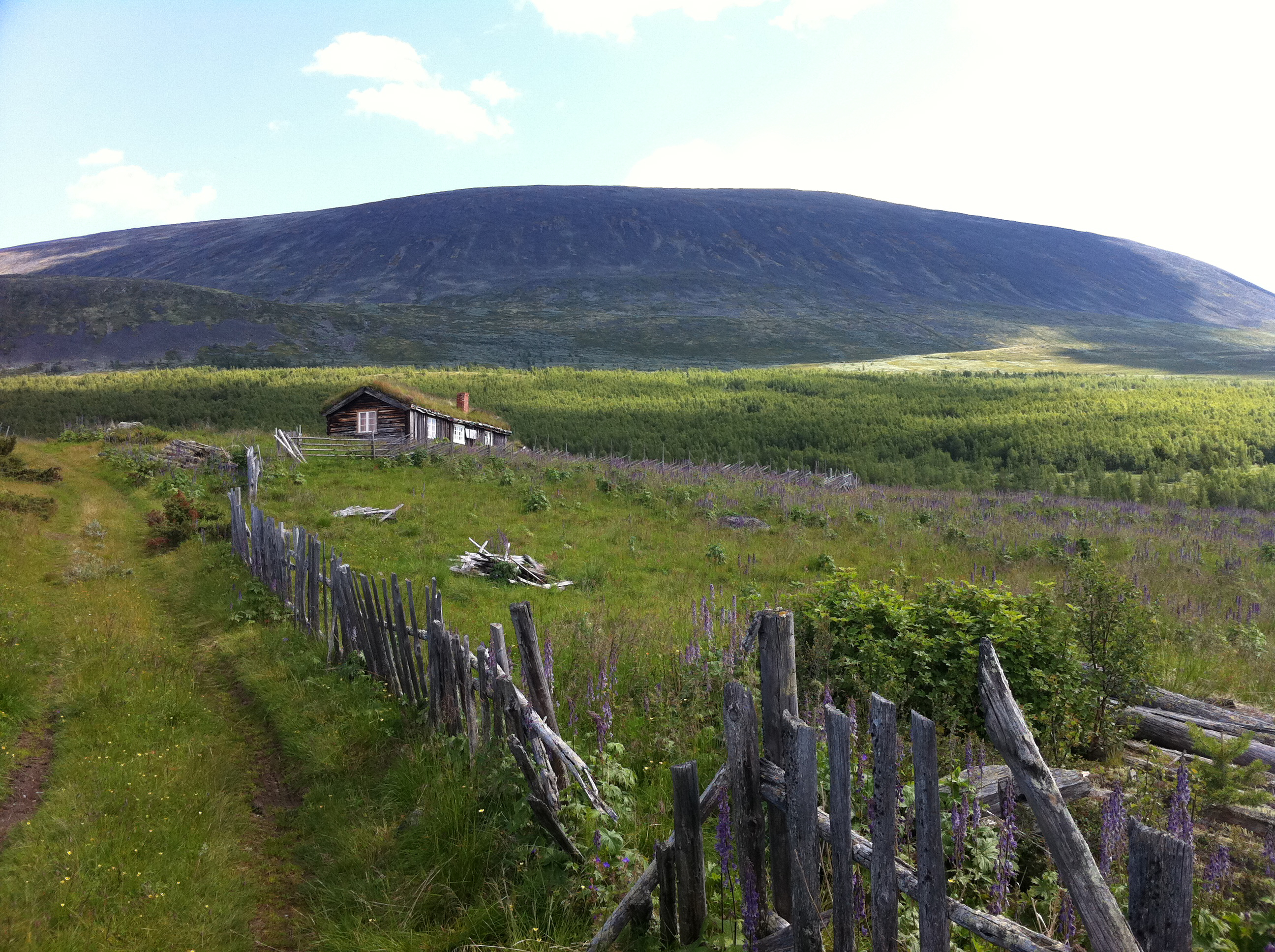 part of the summer mountain pasture of Nordre Ekre, near the mountain Heidalsmuen, Norway Norsk (bokmål): En av bygningene på setra til Nordre Ekre, ved foten av fjellet Heidalsmuen, Sel kommune.